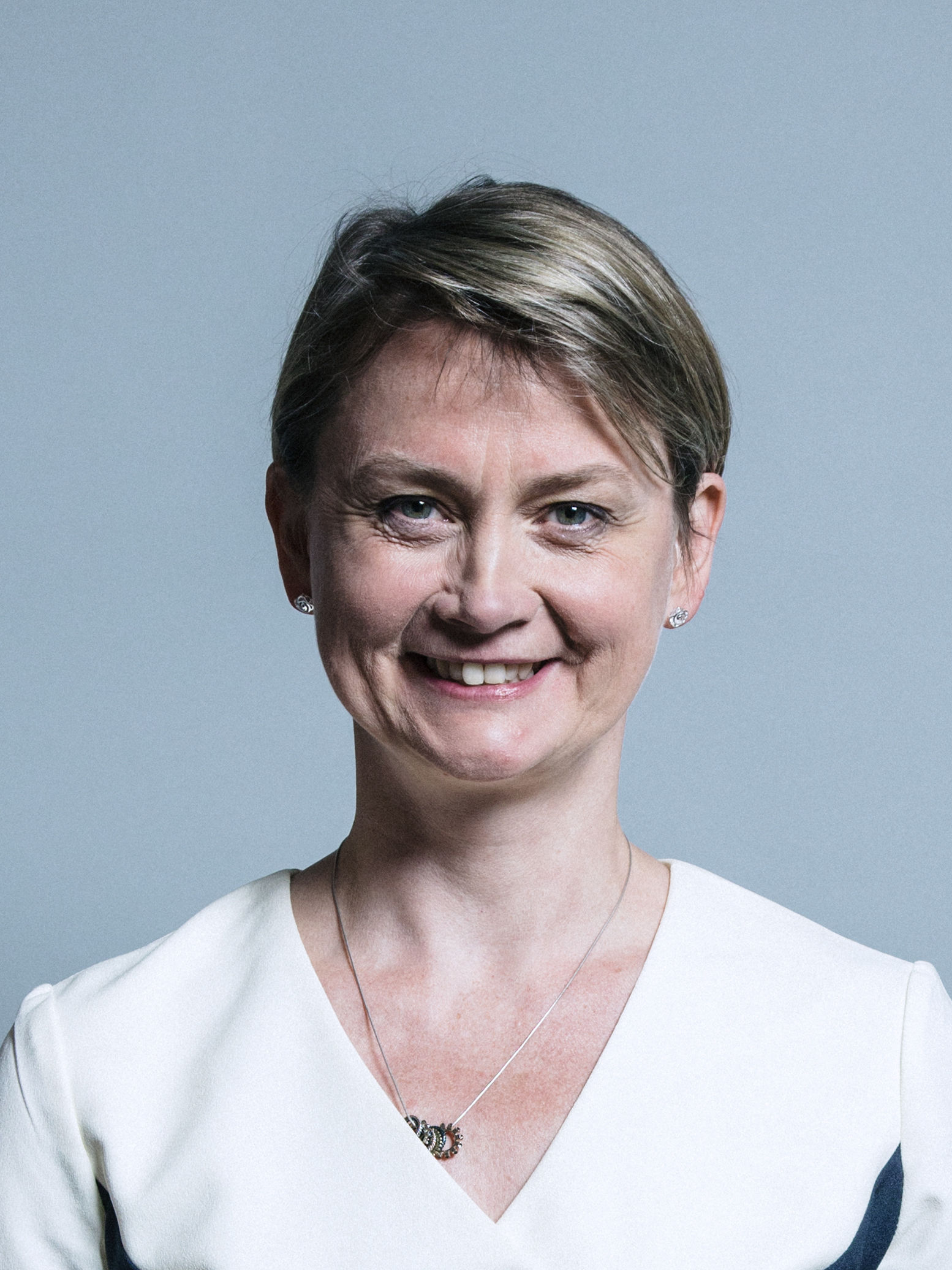 Official Parliamentary photograph of Yvette Cooper MP. For confirmation of licence